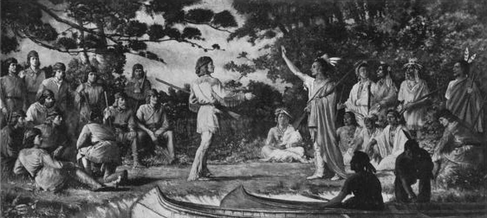 Mural: Interview between Captain Robert Rogers of the "Rogers' Rangers" and the Indian Chief Pontiac (1912), Cuyahoga County Courthouse, Cleveland, Ohio, Charles Yardley Turner, artist.